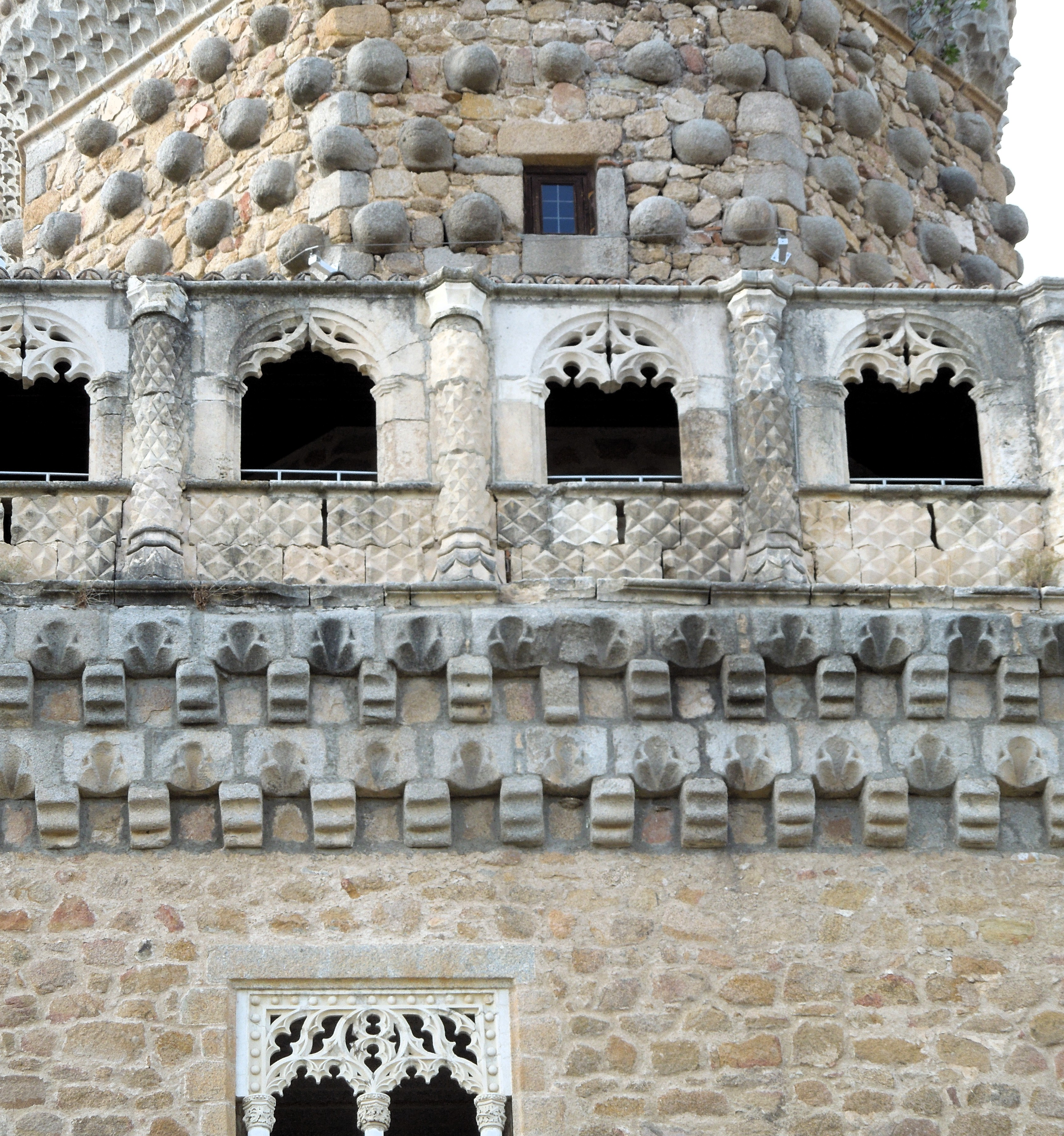 Windows in Guas gallery